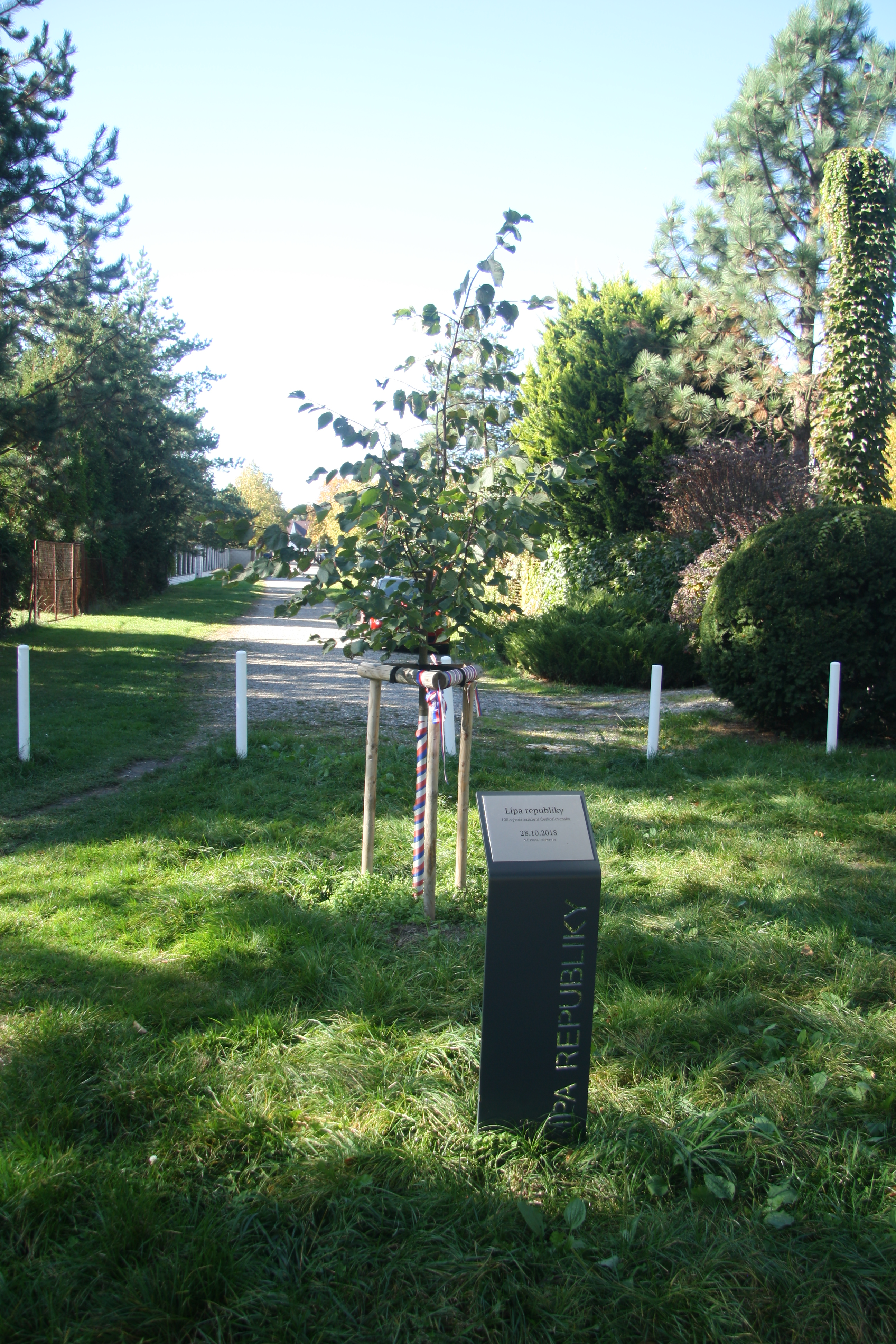 Overview of Lípa republiky at V pátém street in Klánovice, Prague.